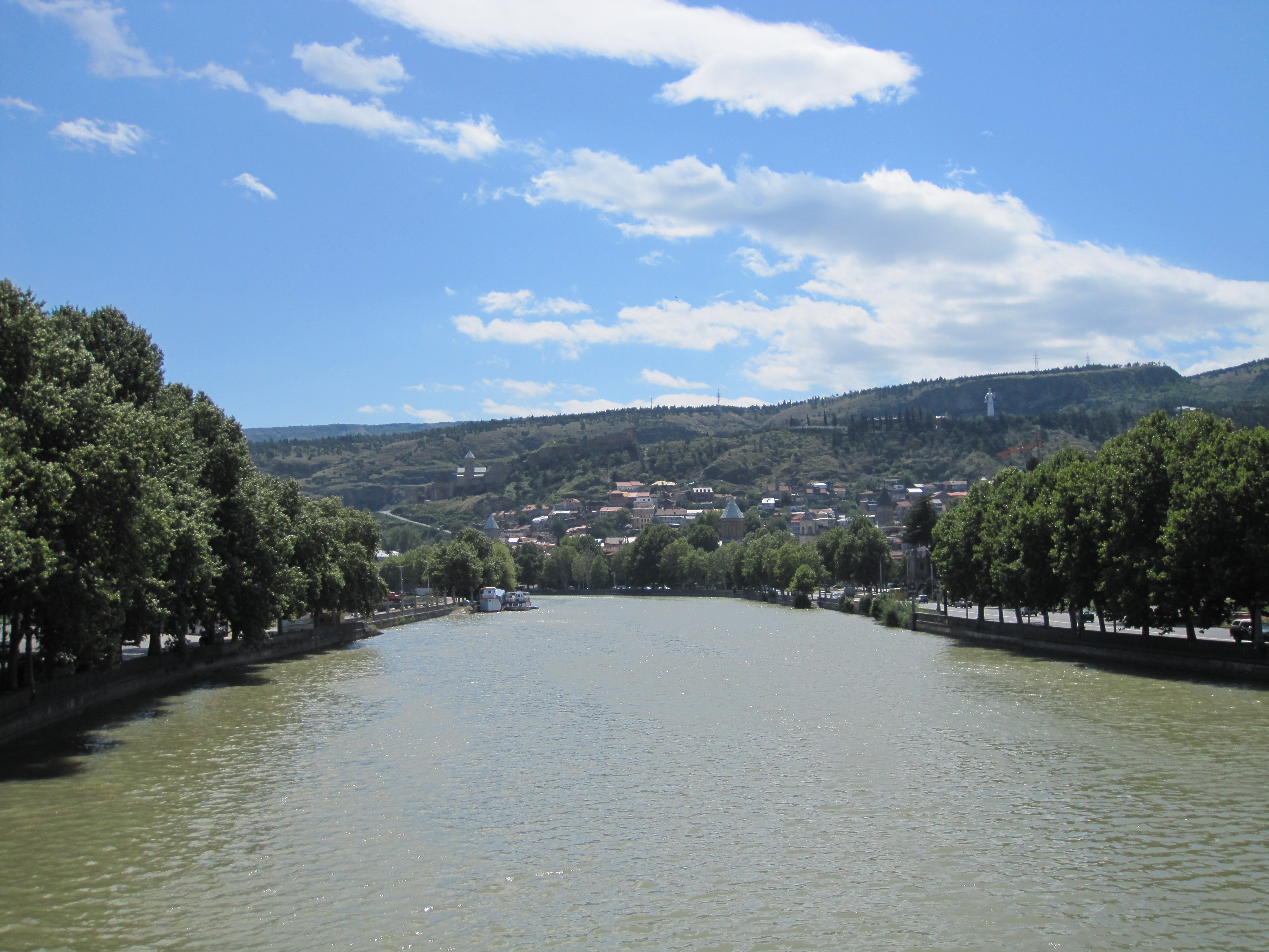 The Mtkvari river (Kura) in downtown Tbilisi